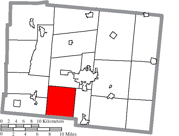 Map of the municipal and township boundaries of Logan County, Ohio, United States, as of the 2000 census, with the location of Union Township highlighted. Township borders are shown only in unincorporated areas in order to differentiate incorporated and unincorporated areas more clearly.